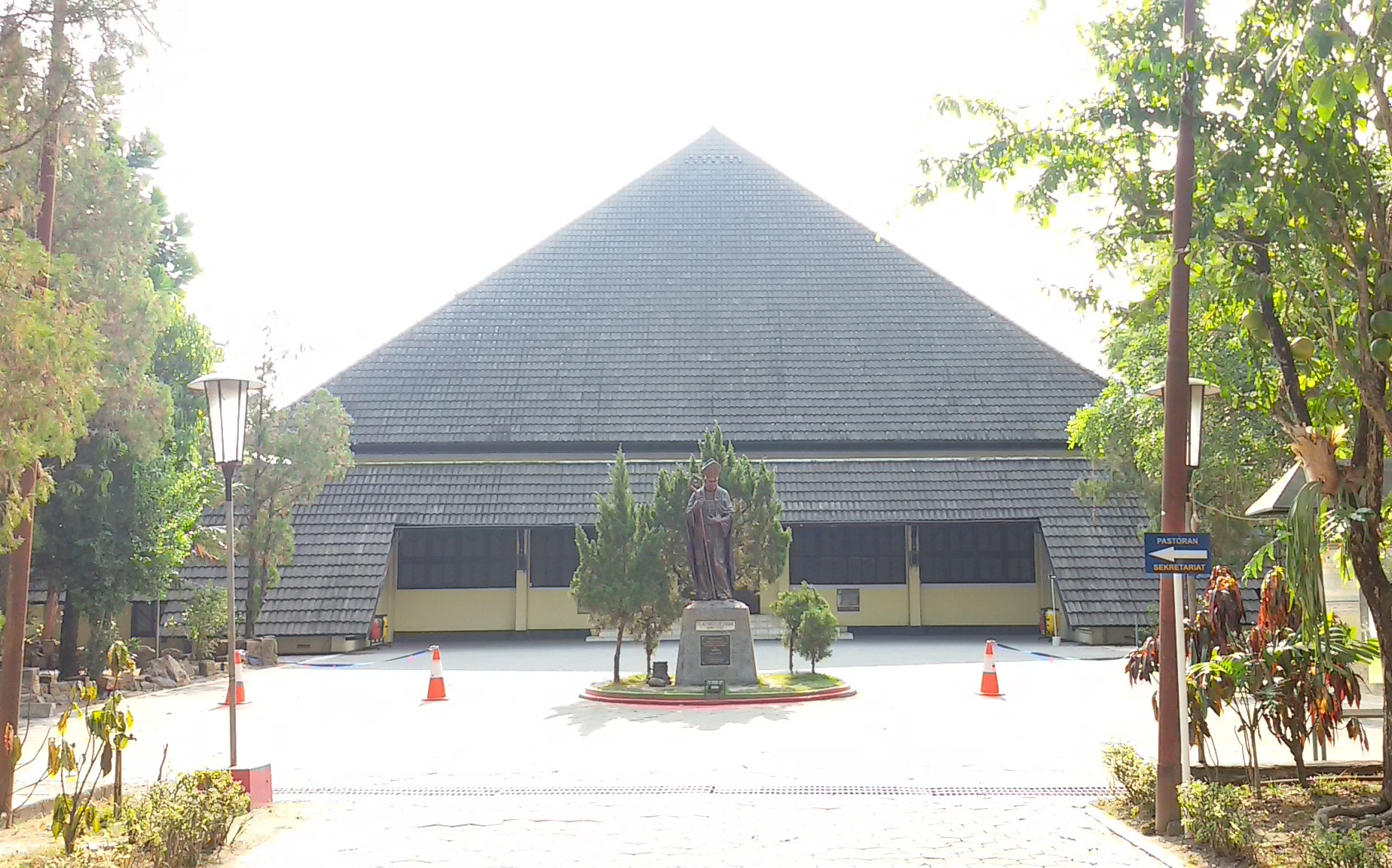 Front side of St Alfonsus Church, Nandan, Yogyakarta